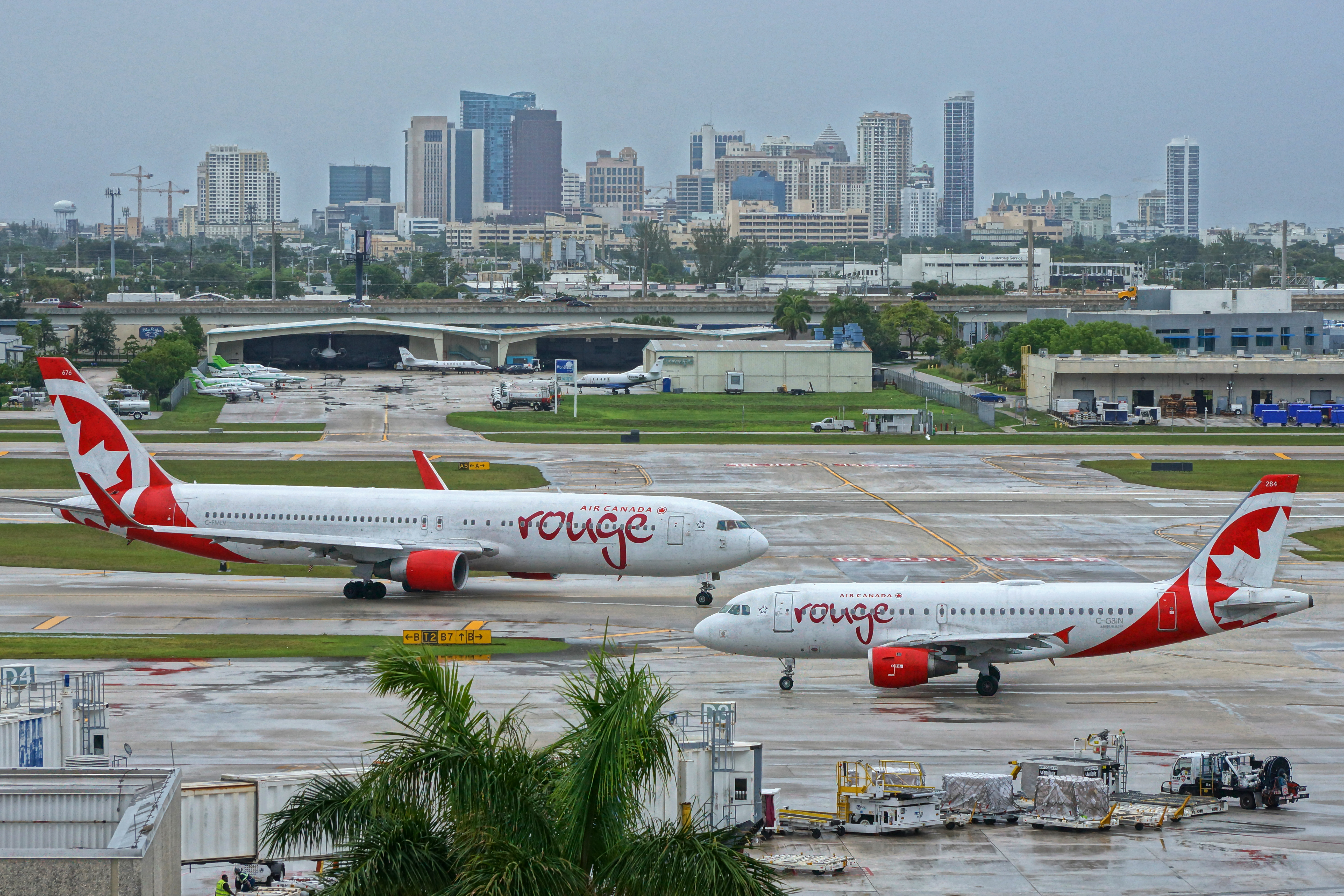 Drove through Monsoon rains to get to FLL to catch AS "More to Love" and Karma stopped the rain just in time for the arrival. I snuck in some other shots while I was waiting! It was a great evening to spend an hour up top.